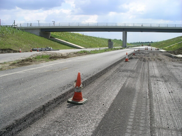 Wadesmill Bypass - Rebuilding following structural problems prior to opening. Photo by c2R - 30th May 2005